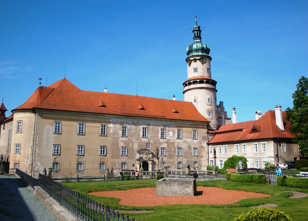 Nové Město nad Metují castle from NE (from the market)